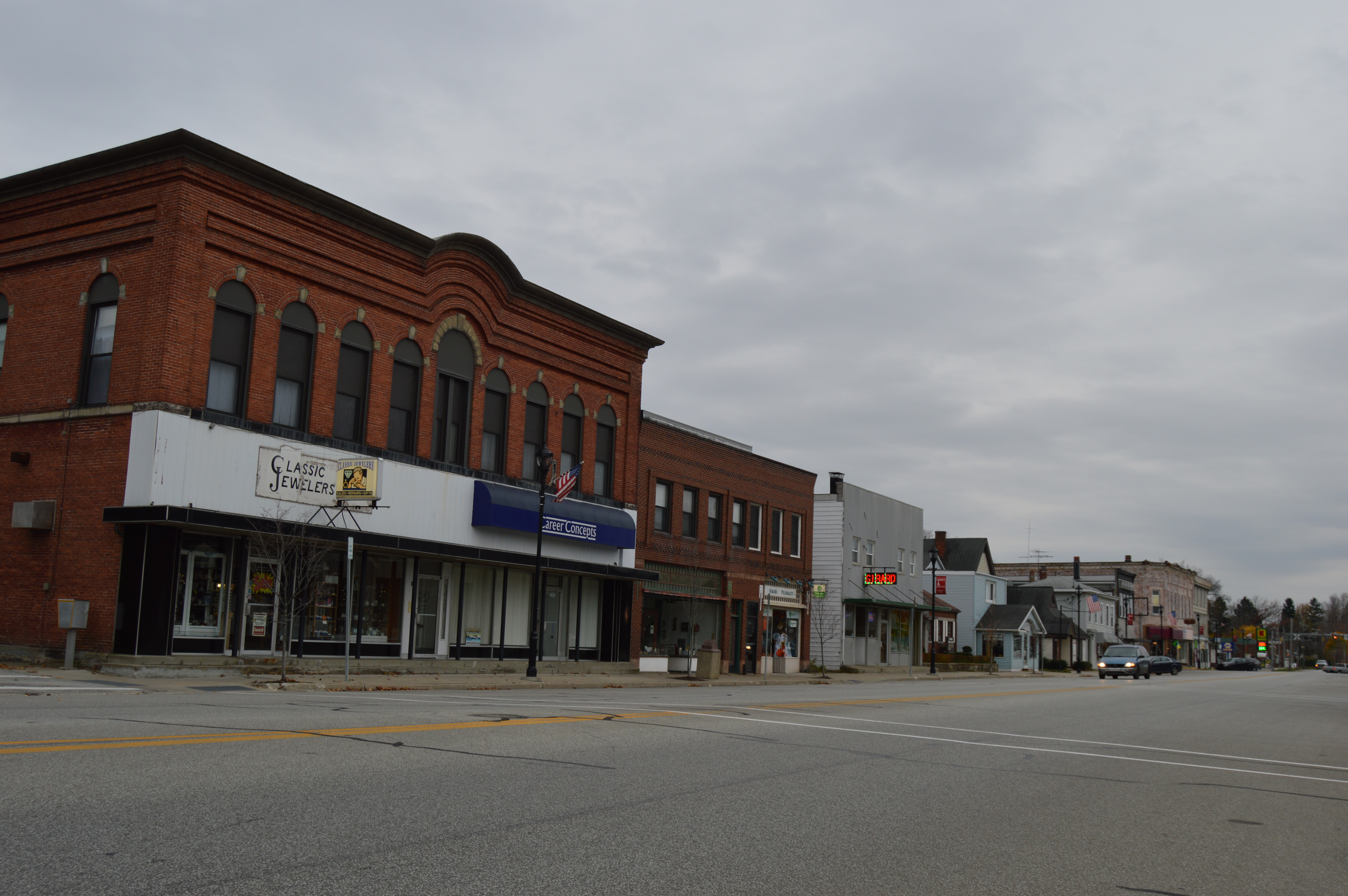 Buildings on the southern side of W. Main Street (U.S. Route 20) in downtown Girard, Pennsylvania, United States.